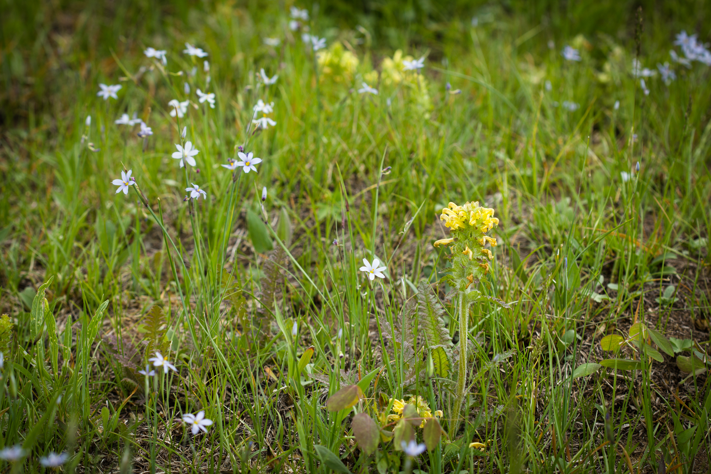 Prairie blue-eyed grass (Sisyrinchium campestre) and wood betony (Pedicularis canadensis) at Crex Meadows in Wisconsin.